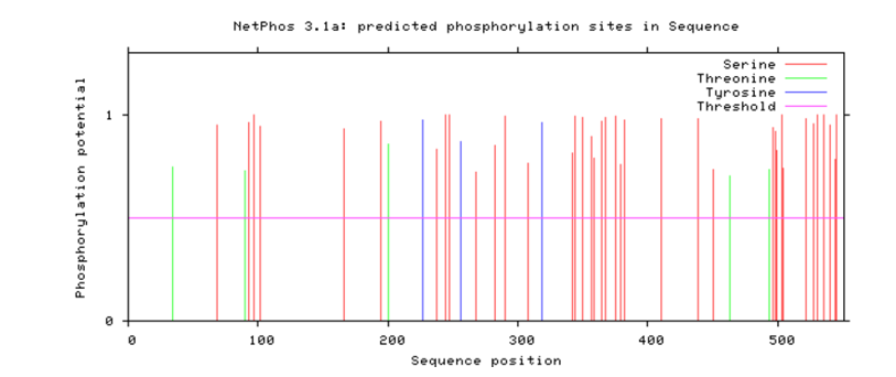 Using Software from NetPhos, this is a map of the possible phosphorylation sites for the protein C10orf67